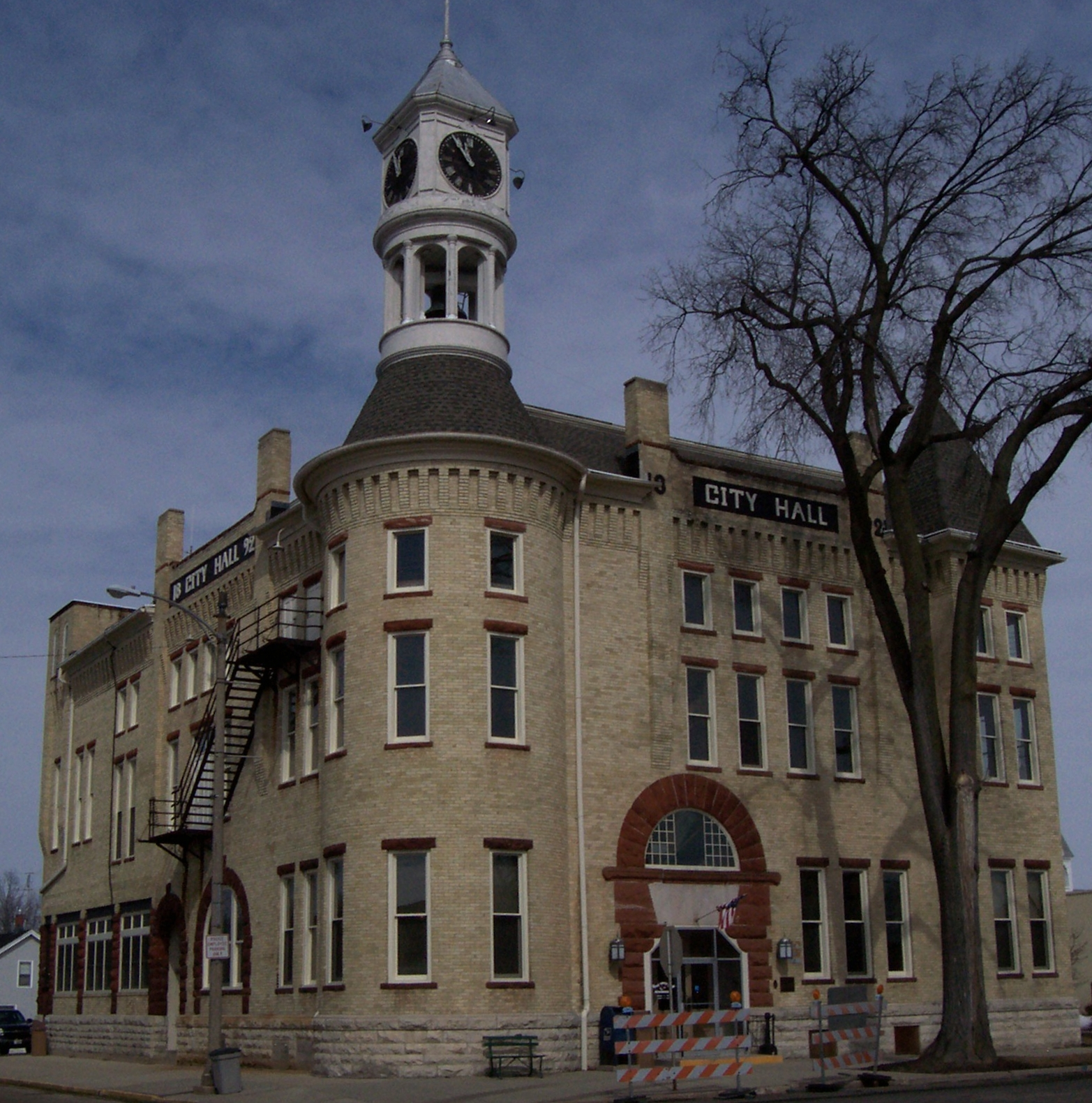 Looking west at the city hall for Columbus, Wisconsin, USA. Taken while travelling on Wisconsin Highway 16 and Wisconsin Highway 60.